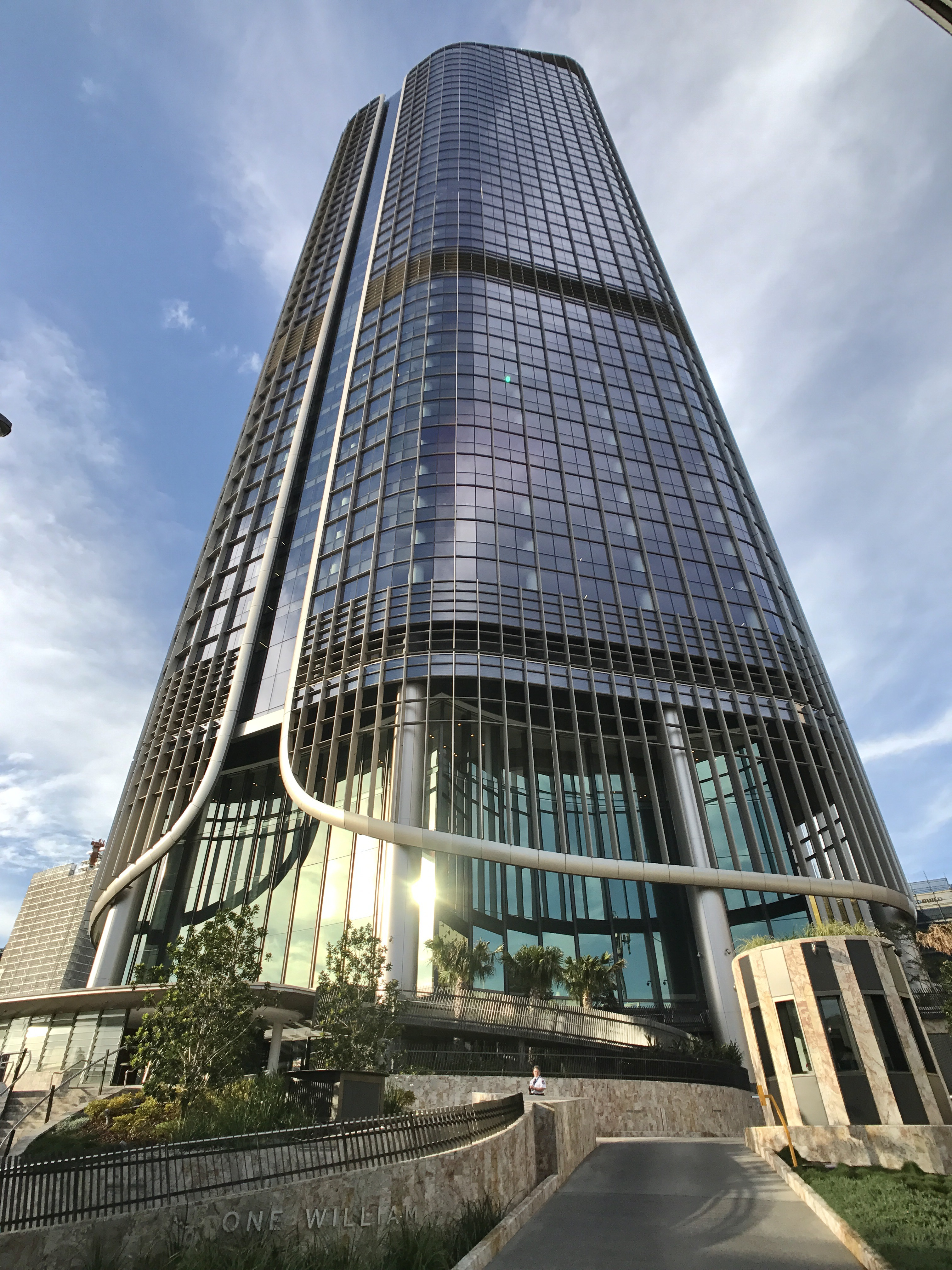 1 William Street, Brisbane grounds